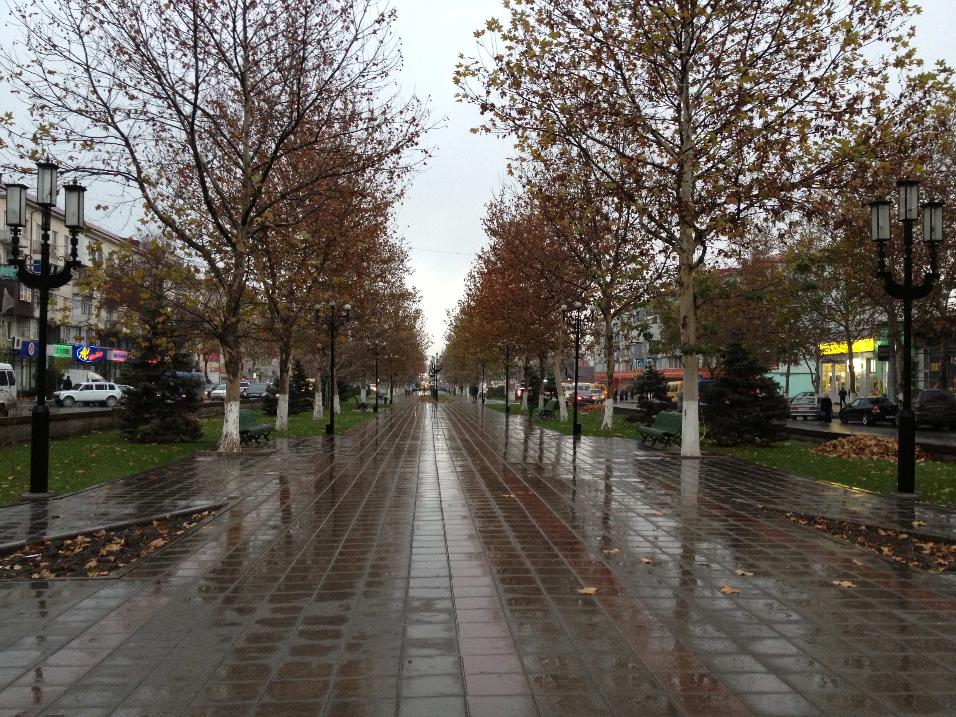 Park on the main avenue in Makhachkala